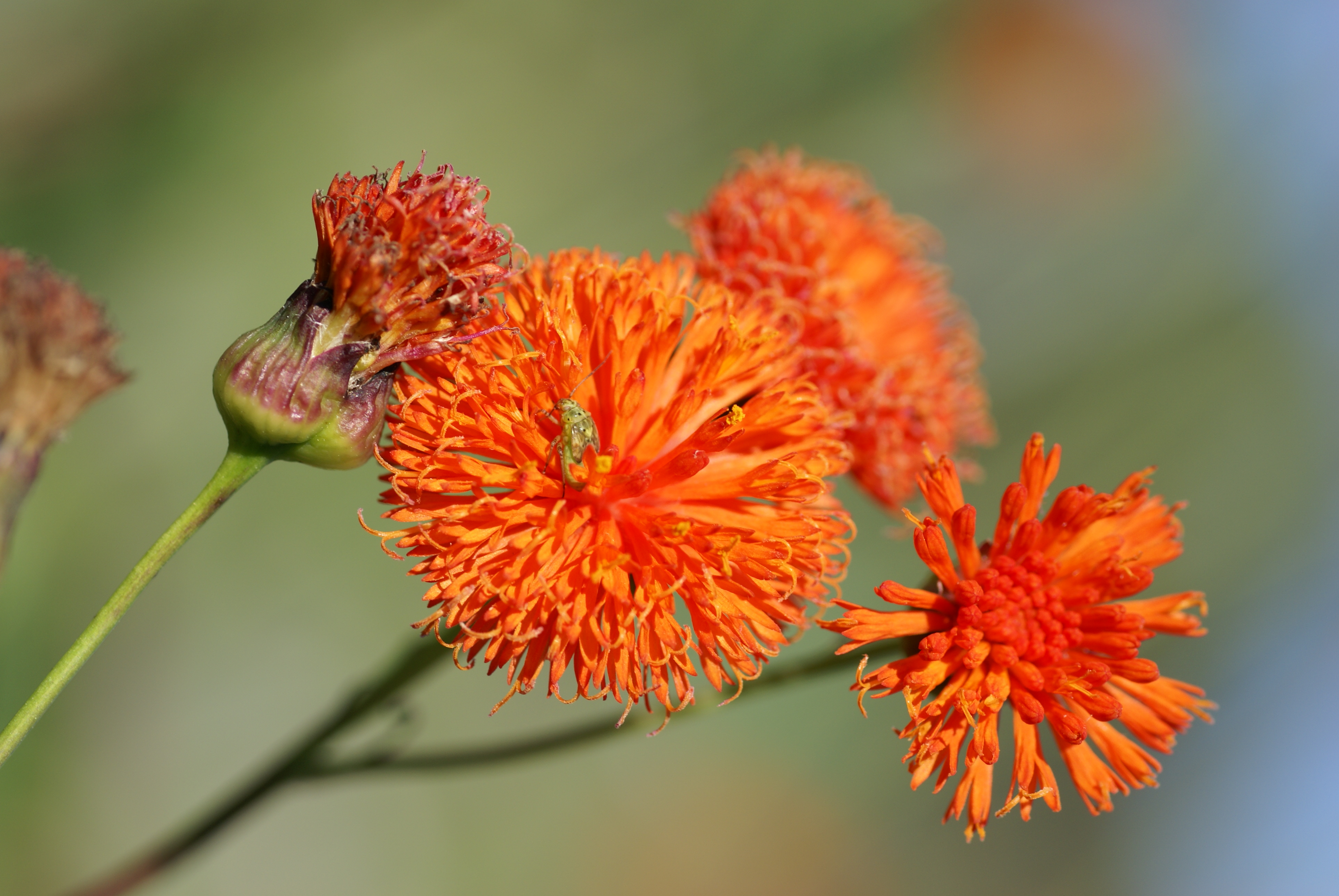 Plant species Emilia coccinea in Bergianska trädgården in Stockholm